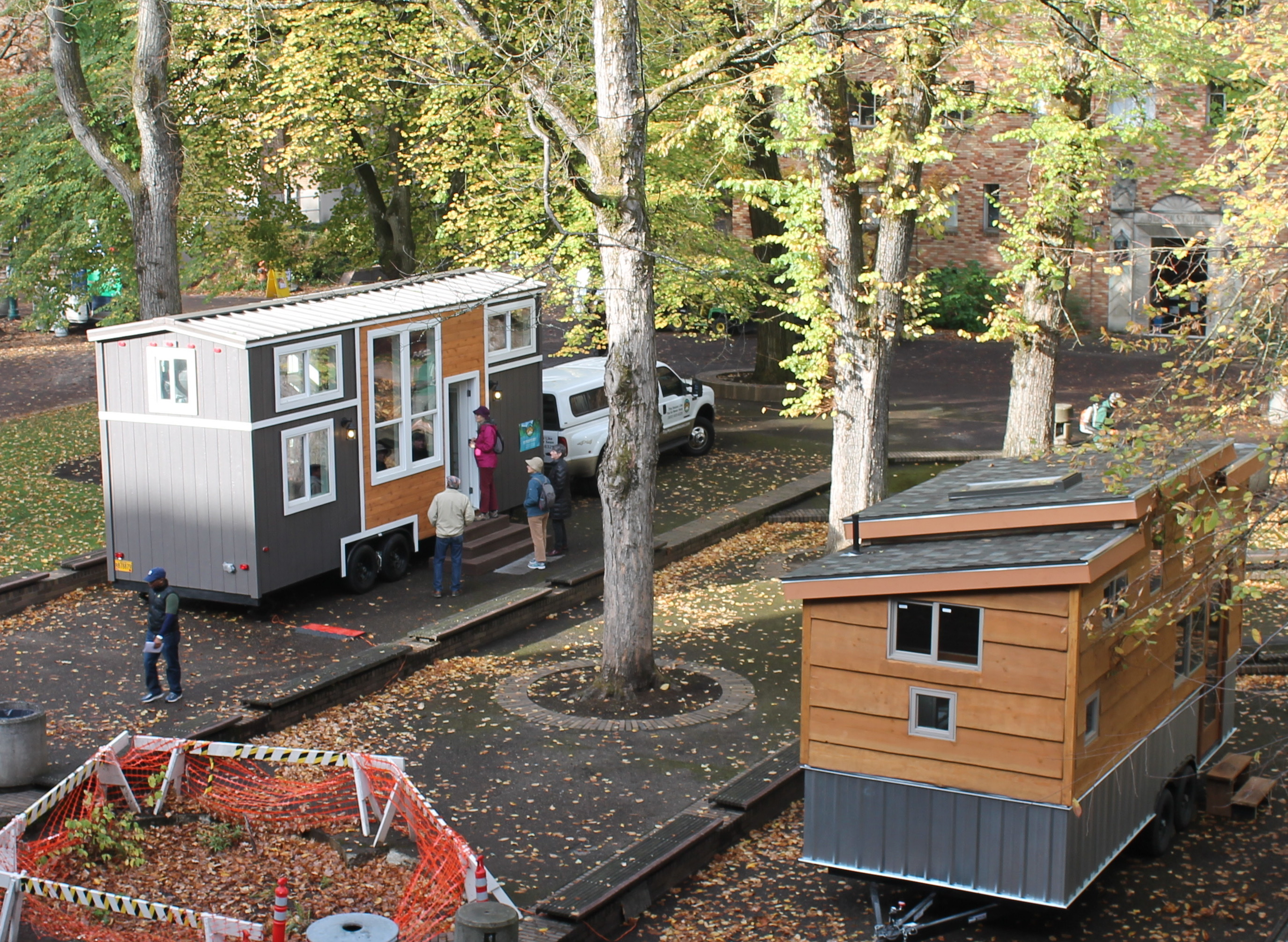 Tiny houses on display during Build Small Live Large 2017 in Portland, OR